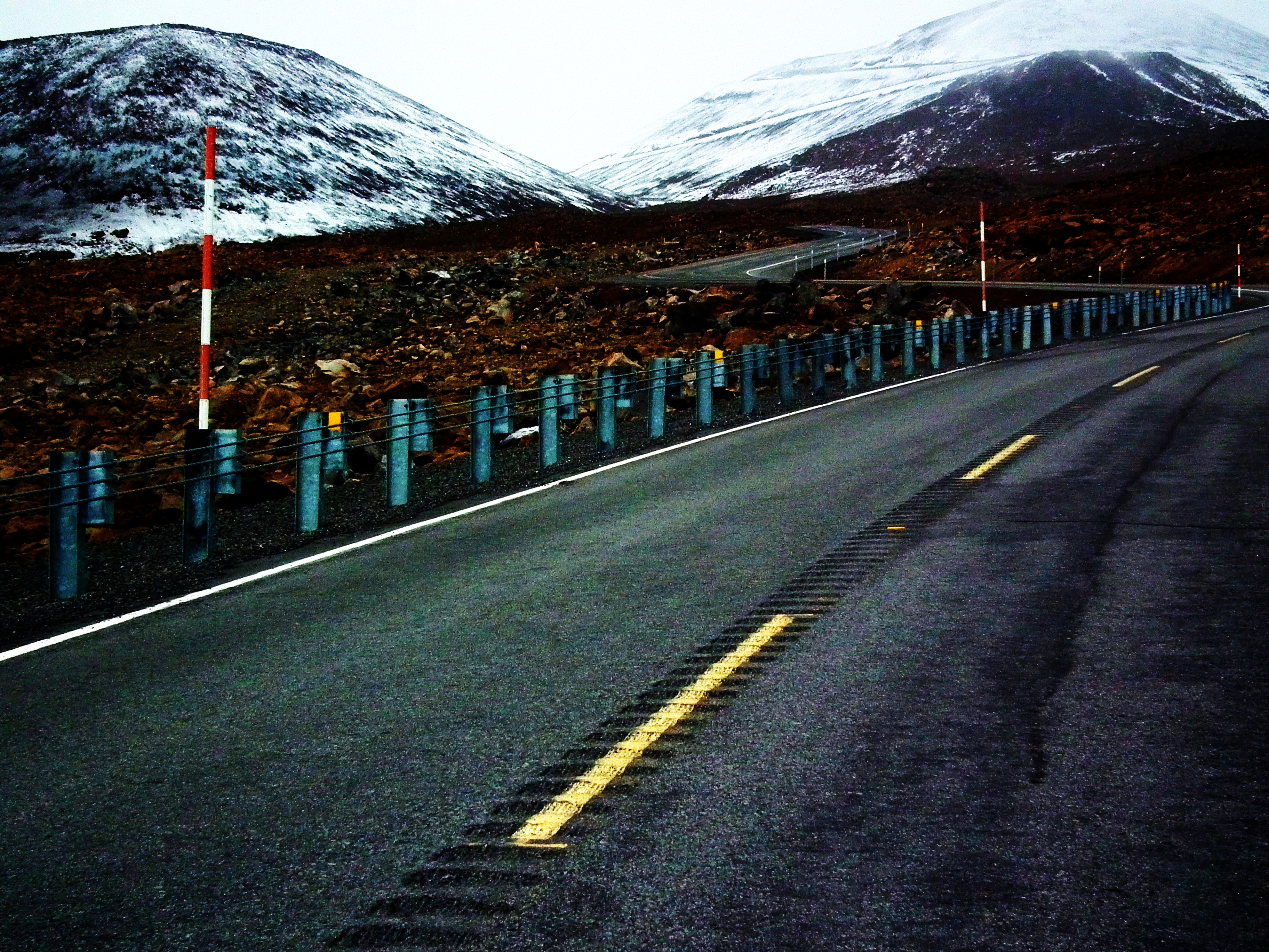 Mauna Kea is a sacred mountain and is the highest island mountain in the world at an altitude of about 13800 feet. When measure from its base at the bottom of the sea, it stands at 33000 feet as the highest mountain in the world. The atmosphere above the peak is ideal for astronomy and some of the biggest telescopes in the world are located at the peak including the twin Keck telescopes, Subaru telescope and NASA infrared telescope. The temperature at the peak stays around freezing and there is a glacial lake close by. Any one can drive to the top using a 4x4 vehicle that you can rent from Harper Auto Rental.